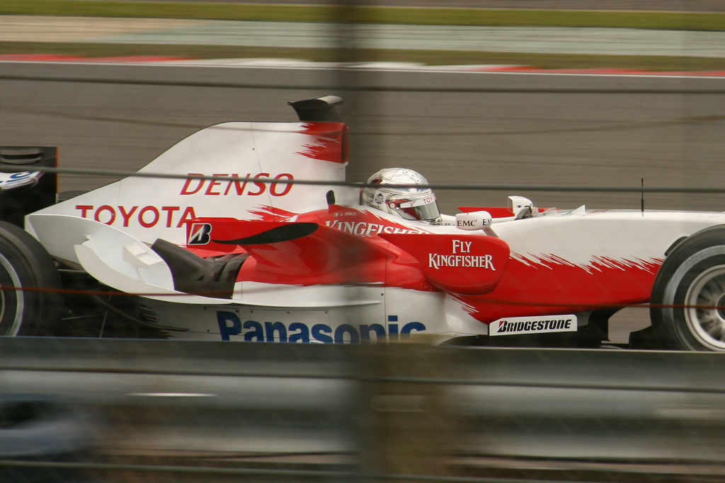 F1 Testing June 2007 Practising panning. Need more practise